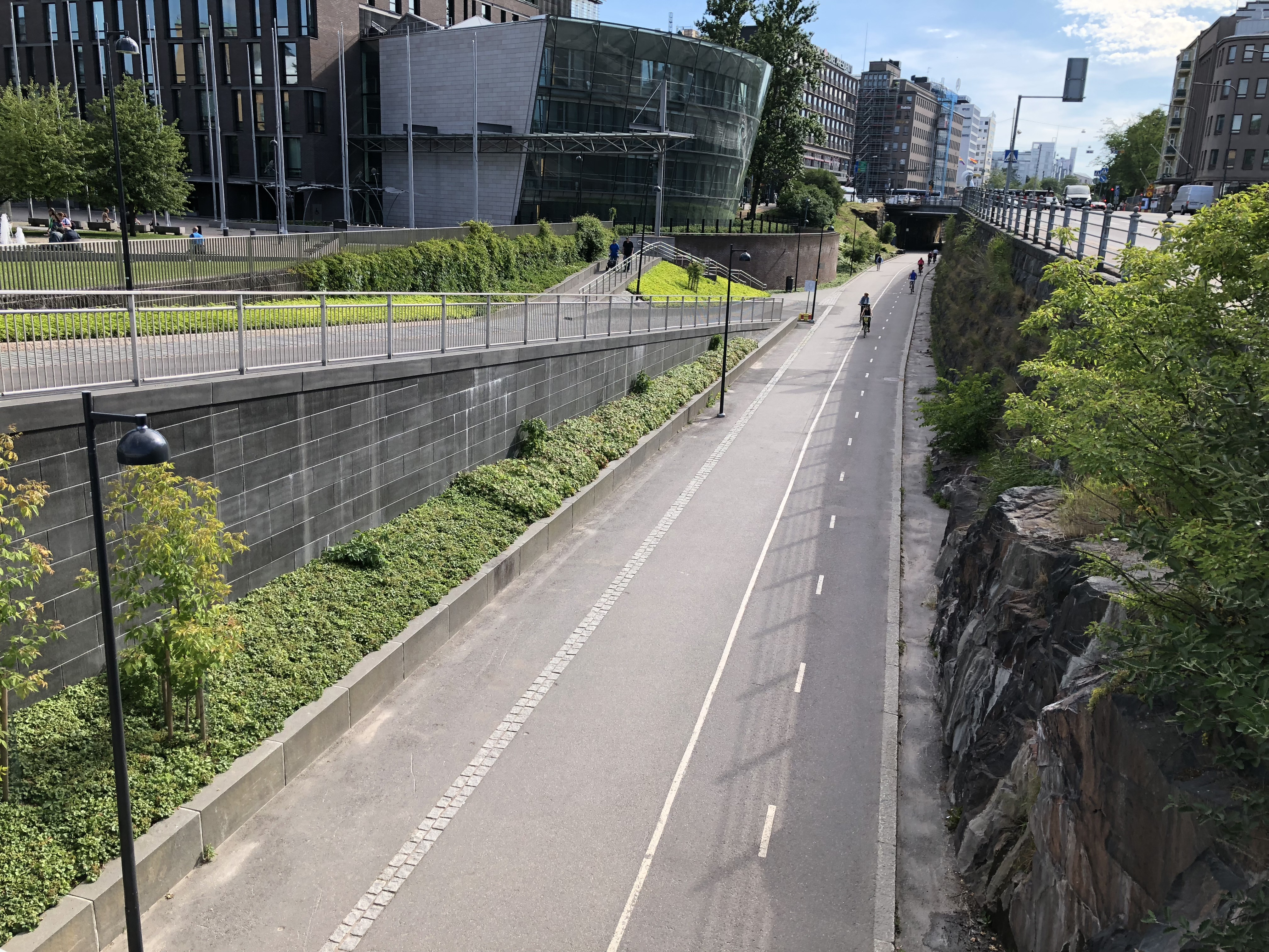 Baana filmed in summer 2018.